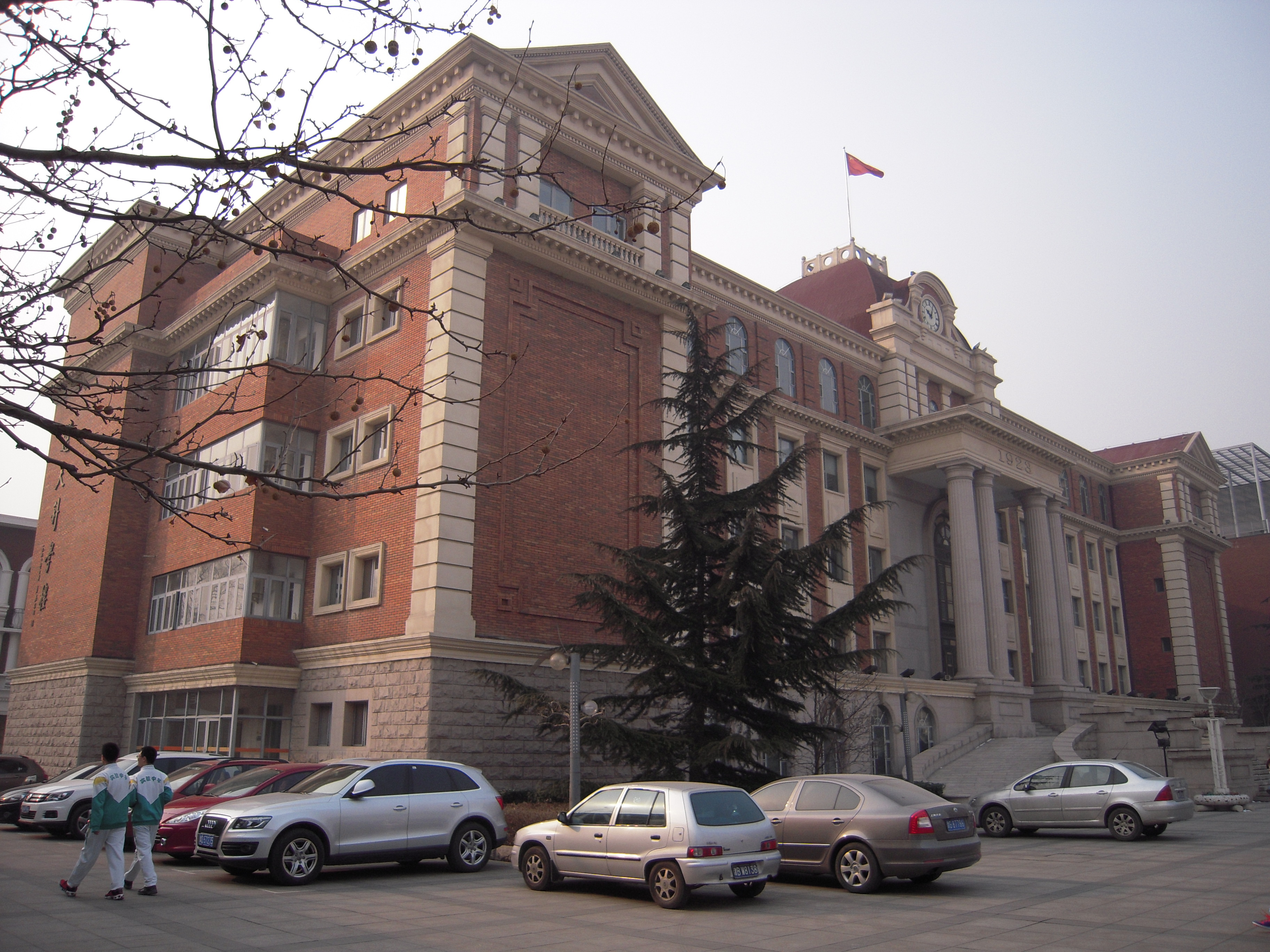 A side view of the Run Run Shaw Science Building(Yifu Science Building) of Tianjin Experimental High School.